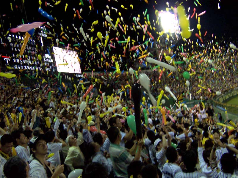 The Seventh Inning Conception Re-Enactment